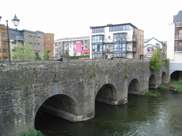 Poolboy Bridge, Navan Crosses the Blackwater immediately above its confluence with the Boyne. Carries the northerly N51 traffic flow towards Drogheda.